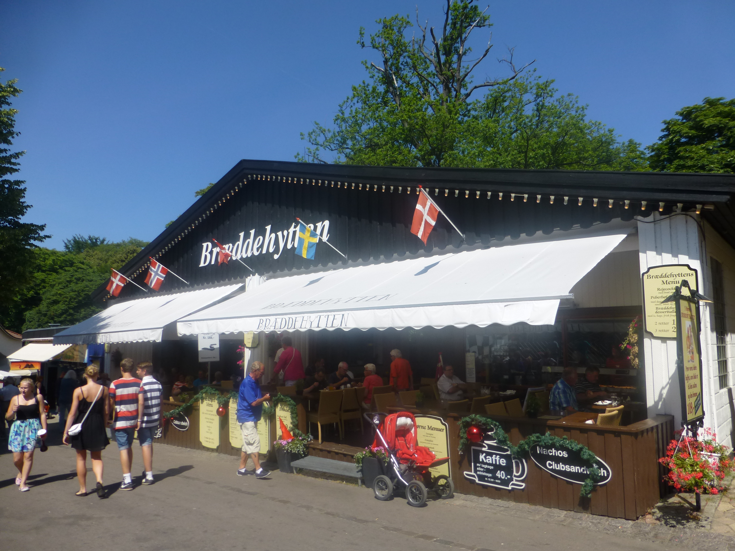 The amusement park Dyrehavsbakken north of Copenhagen. The restaurant Bræddehytten.